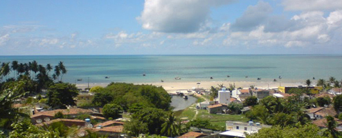 Pitimbue Beach